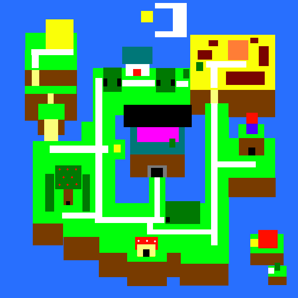 Mario land 2 map